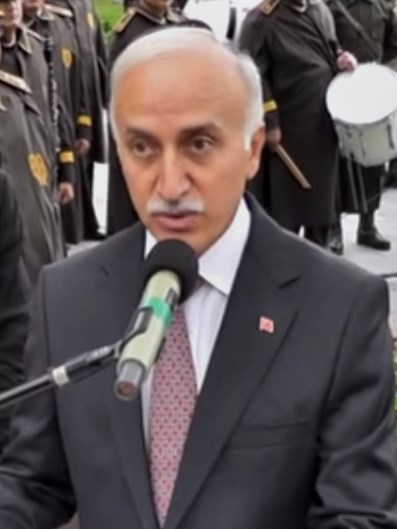 Turkish governor and former general manager of the TRT and PTT İbrahim Şahin